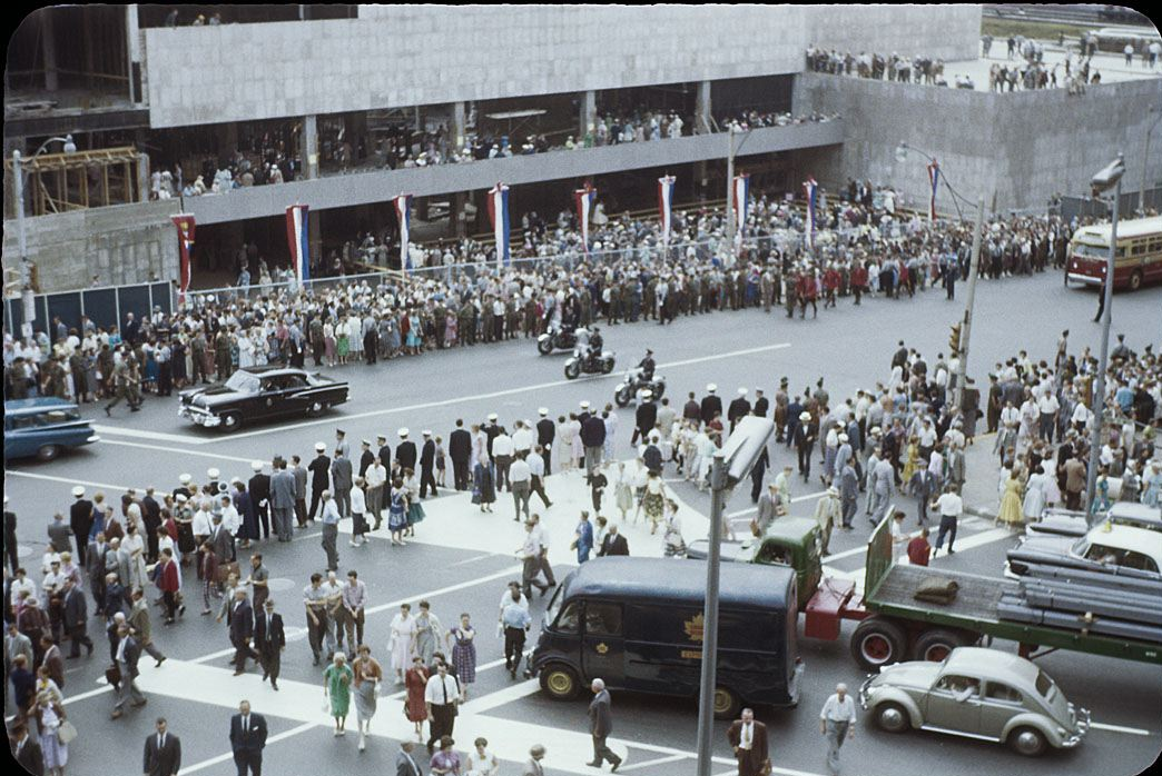 Motorcade of Elizabeth II at the intersection of Yonge and Front streets, with the under-construction O'Keefe Centre in the background. Toronto, Ontario, Canada.